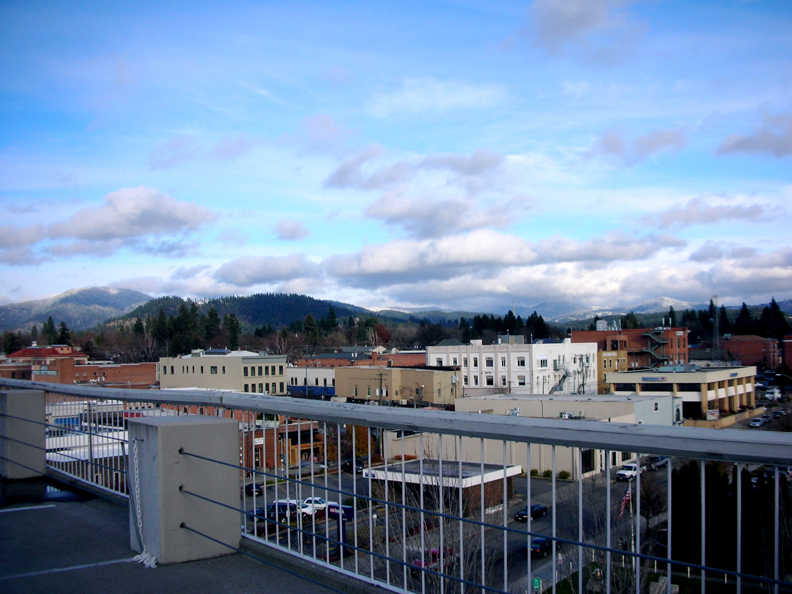 City of Coeur d'Alene